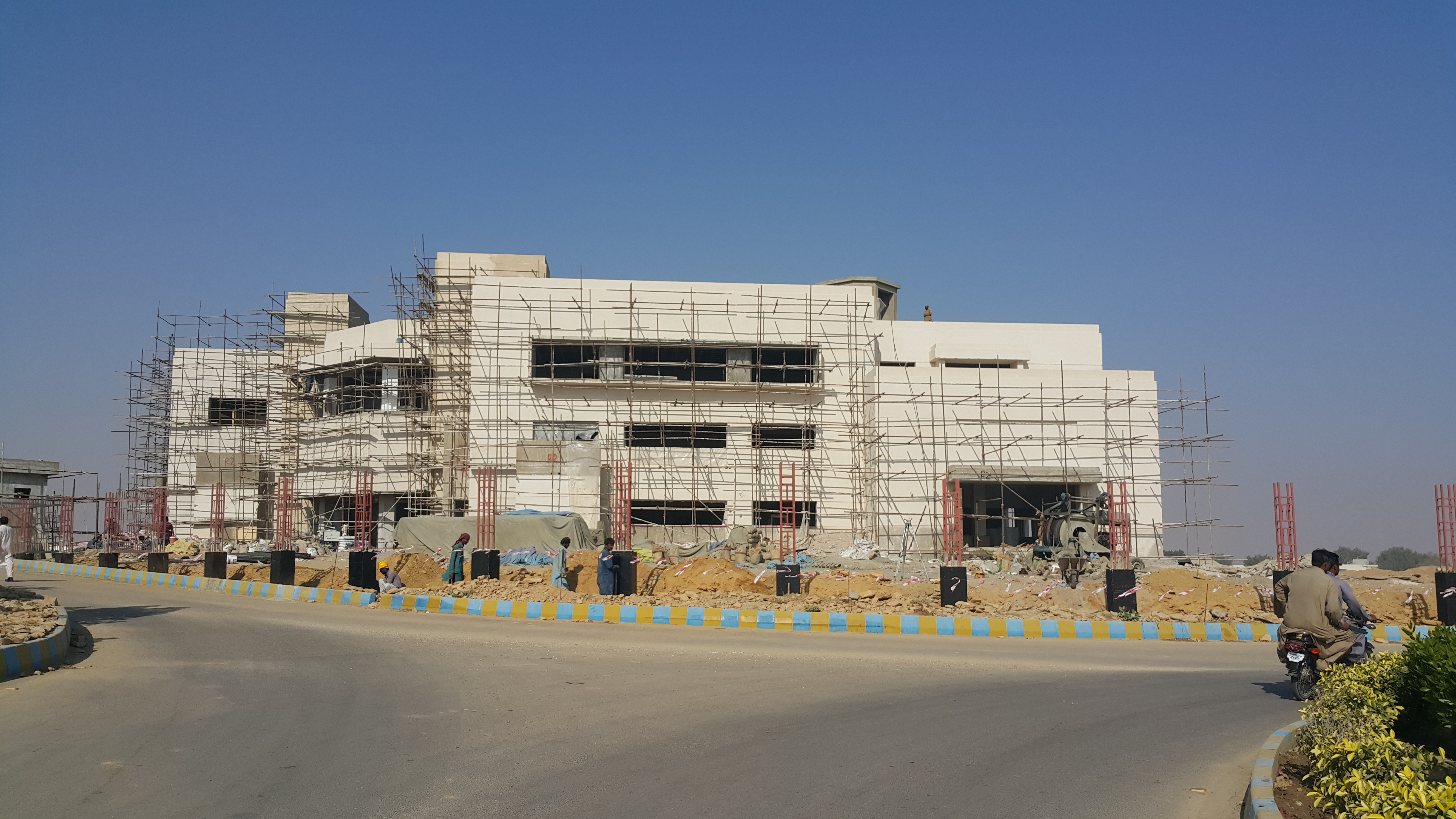 This is the picture of Advanced Studies in Water Department at MUET Jamshoro. Now it has been constructed.